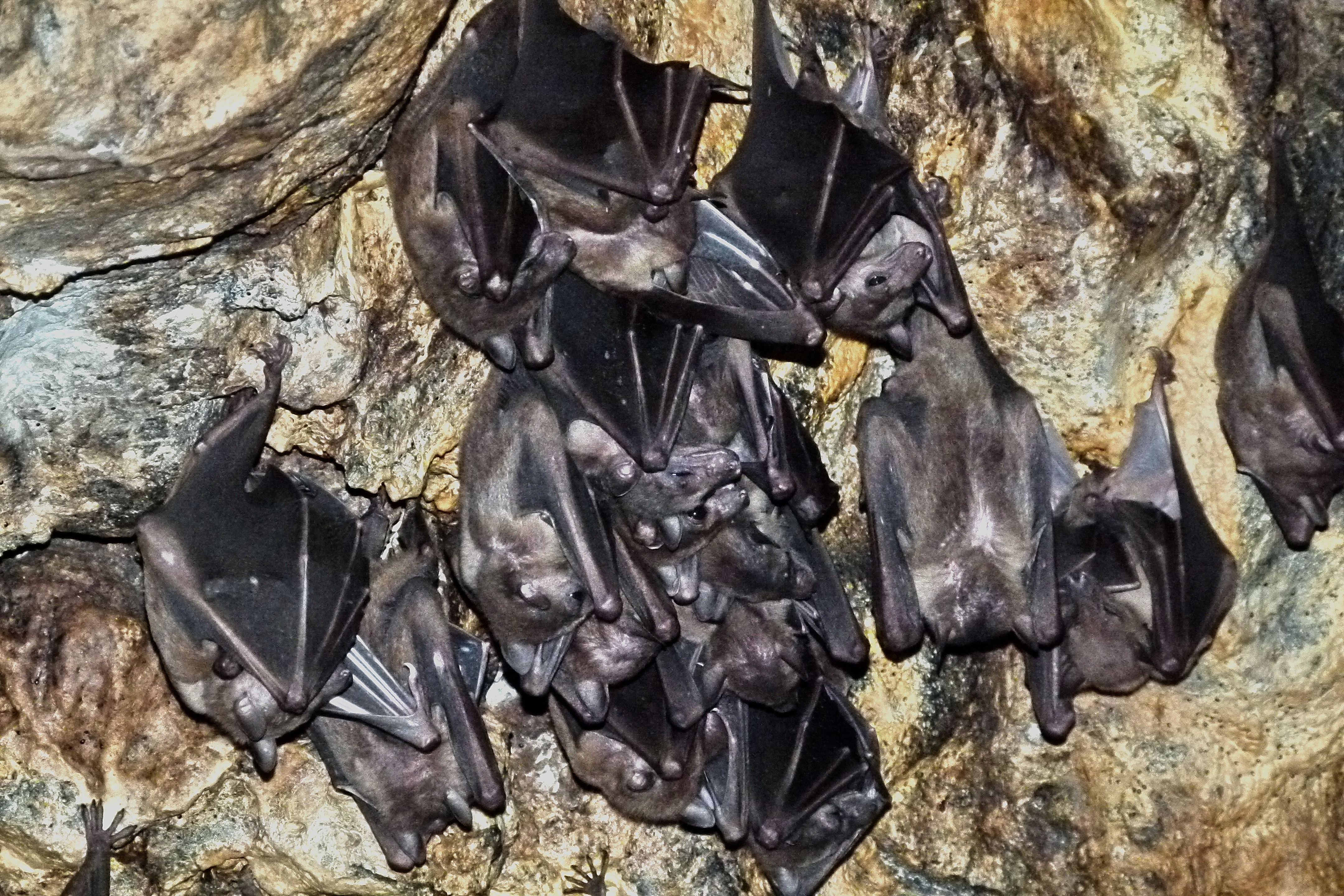 Bats in Goa Lawah (bat cave) in Bali